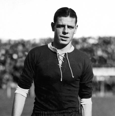 Argentine footballer Antonio Sastre while playing for Independiente of Avellaneda.